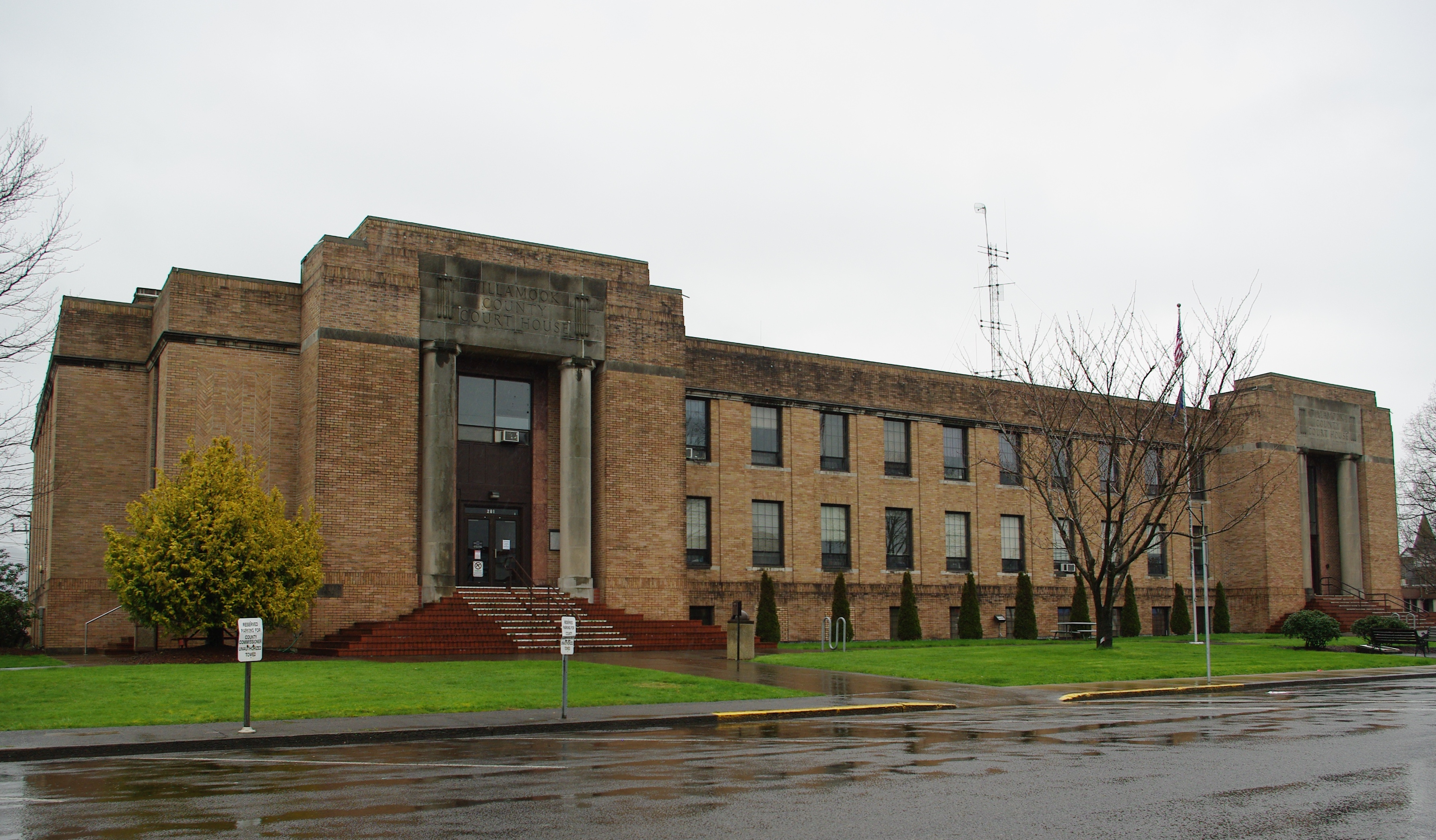 Tillamook County Courthouse in Tillamook, Oregon.